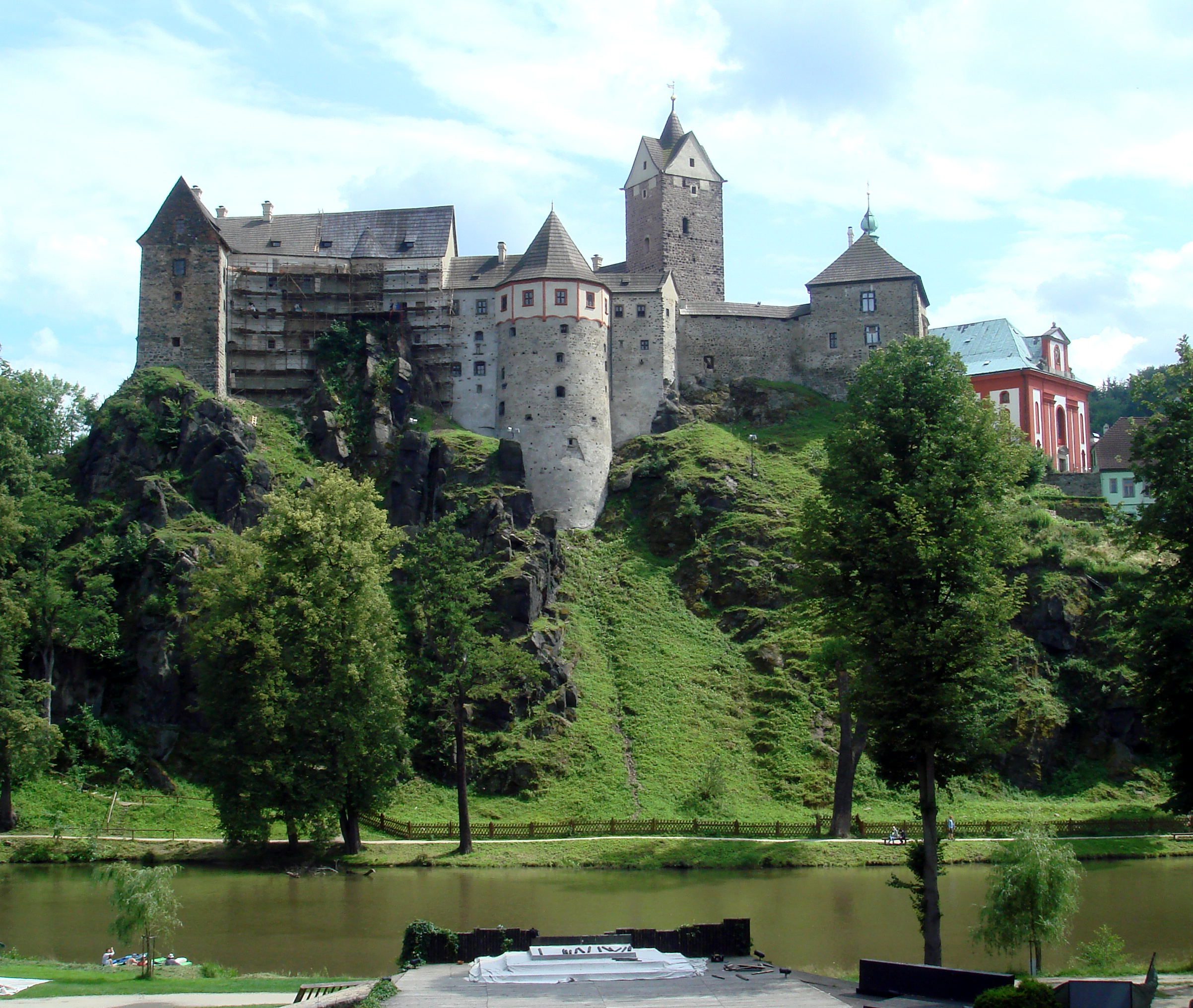 Loket Castle (Loket Hrad) in Loket, Czech Republic. The the main stage for the annual opera festival is in the foreground.